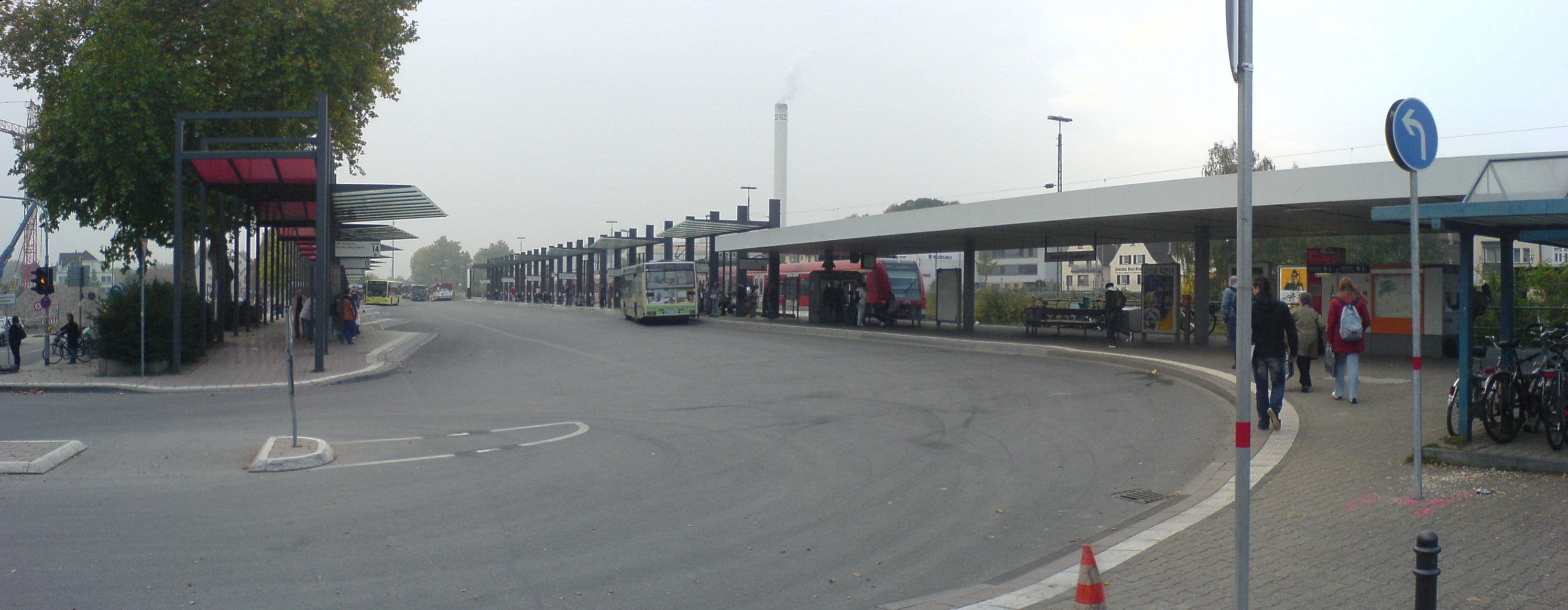 Bergisch Gladbahn train station, Germany